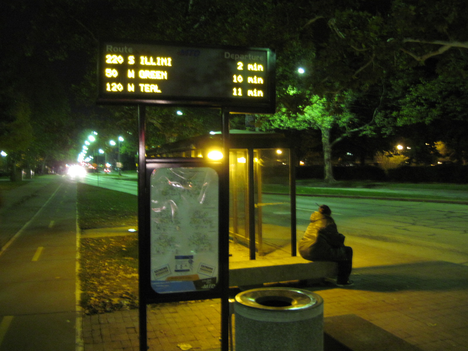 A typical Champaign-Urbana Mass Transit District bus stop in Urbana, Illinois on the campus of the University of Illinois at Urbana-Champaign